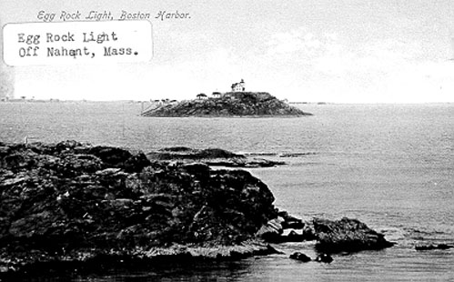 Egg Rock Lighthouse, Nahant Bay, Massachusetts, USA 1898 Structure